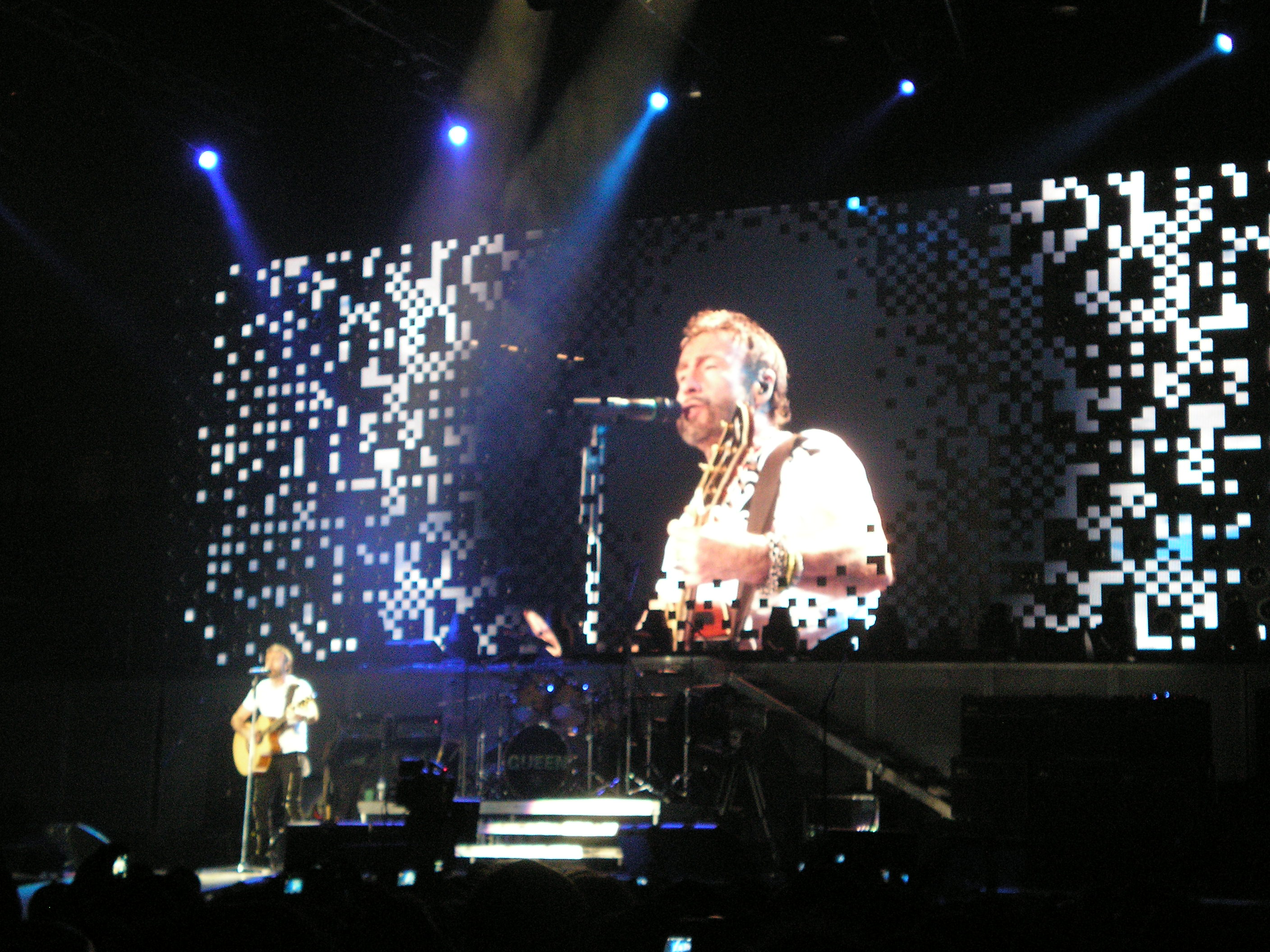 Paul Rodgers with Queen in Madrid.